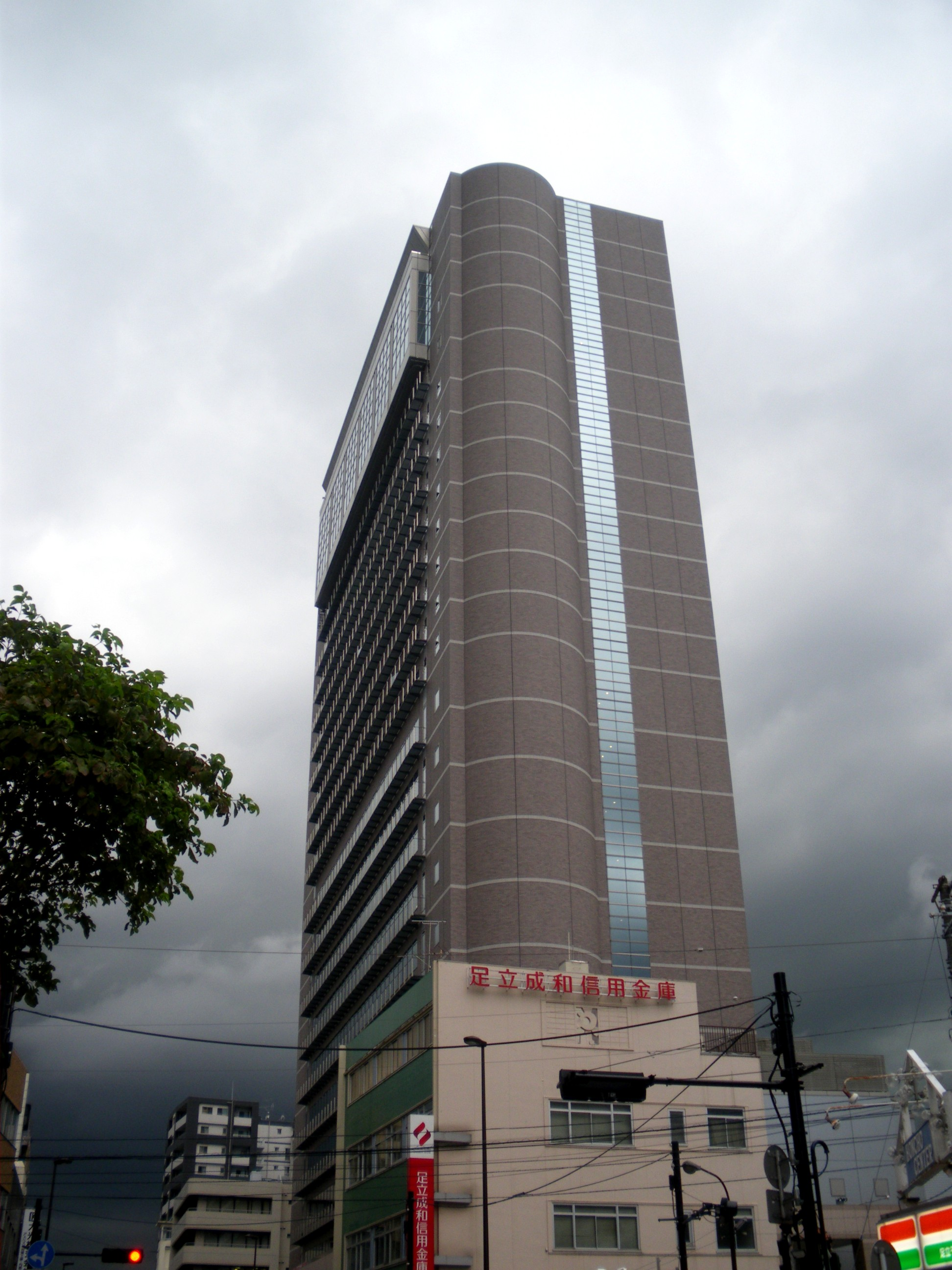 Art Center of Tokyo(Senju,Adachi,Tokyo)